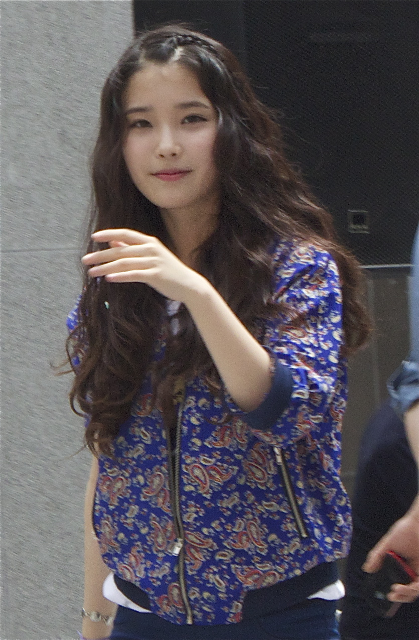 IU, a South Korean singer, actress, and composer, leaving the G By Guess Fan Signing on 2012-04-29. The fan signing took place at the Lotte Department Store (Pyeongcheon Branch), Dong-an-gu, Anyang, Gyeonggi-do, South Korea.